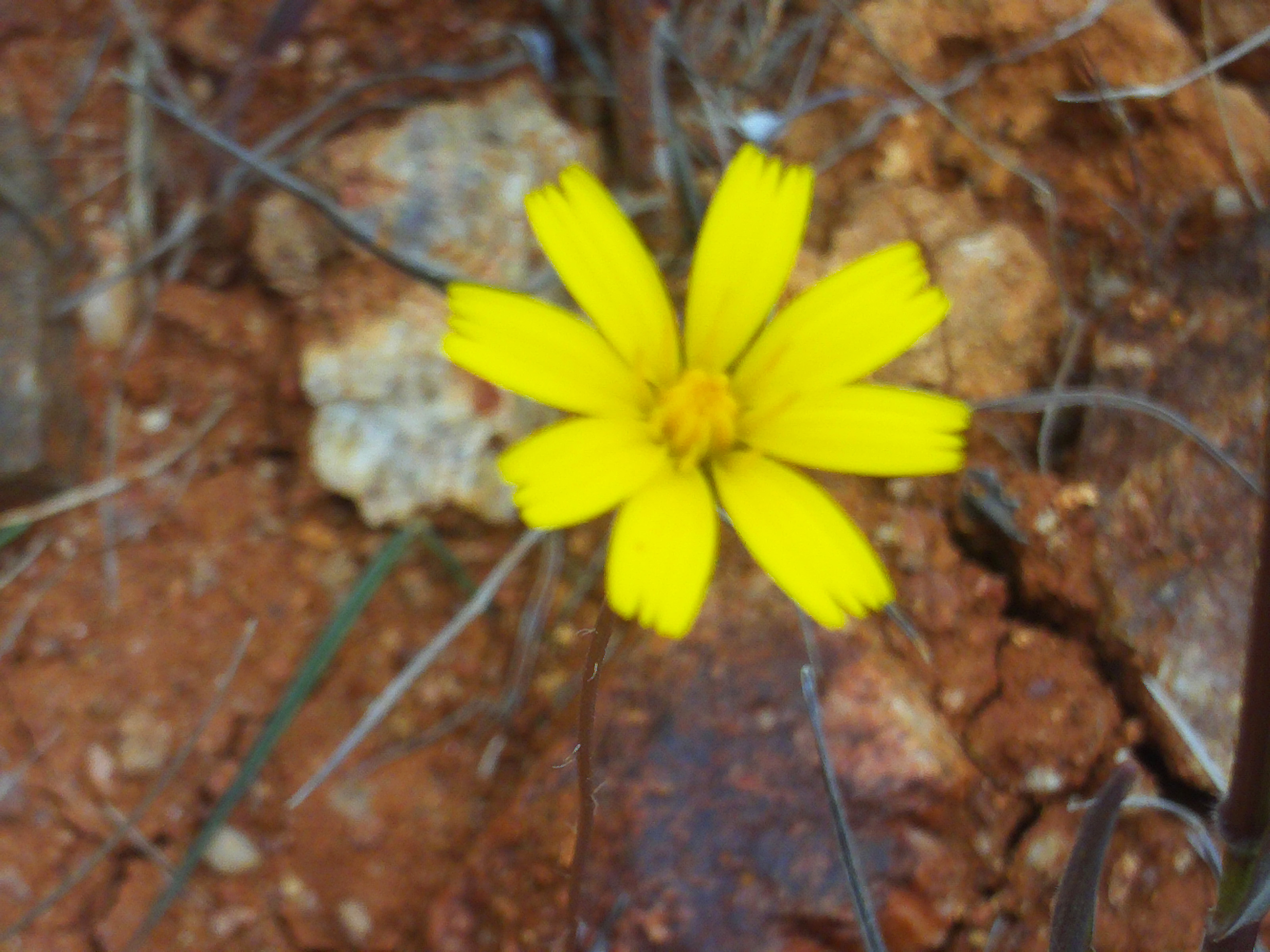 Picris hispanica flower close up, Dehesa Boyal de Puertollano, Spain